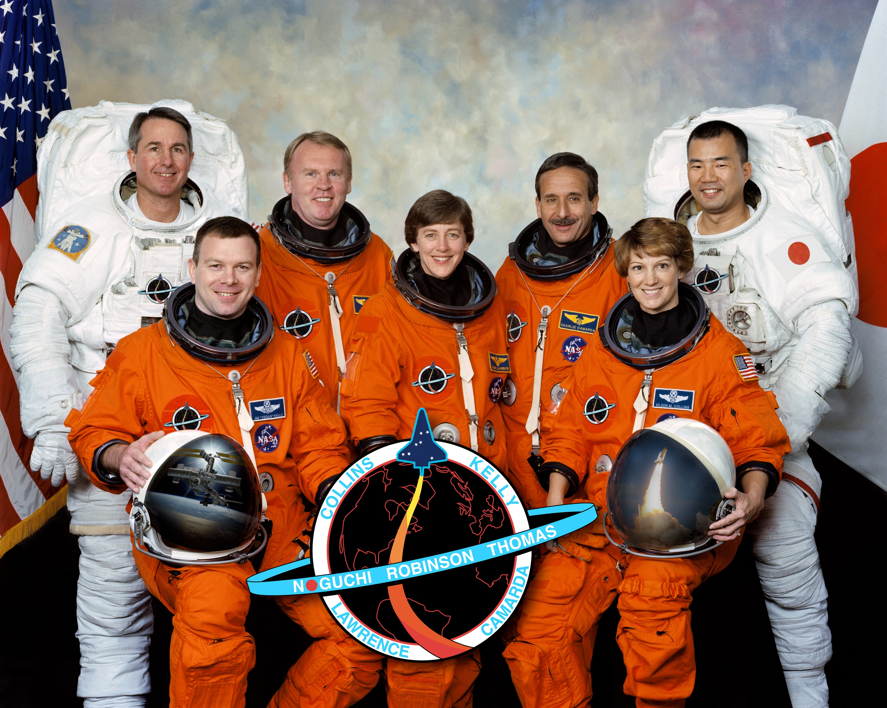 (March 2004) --- These seven astronauts take a break from training to pose for the STS-114 crew portrait. In front are astronauts Eileen M. Collins (right), commander; Wendy B. Lawrence, mission specialist; and James M. Kelly, pilot. In back are astronauts Stephen K. Robinson (left), Andrew S. W. Thomas, Charles J. Camarda, and Soichi Noguchi, all mission specialists. Noguchi represents Japan Aerospace Exploration Agency (JAXA). Image courtesy NASA.